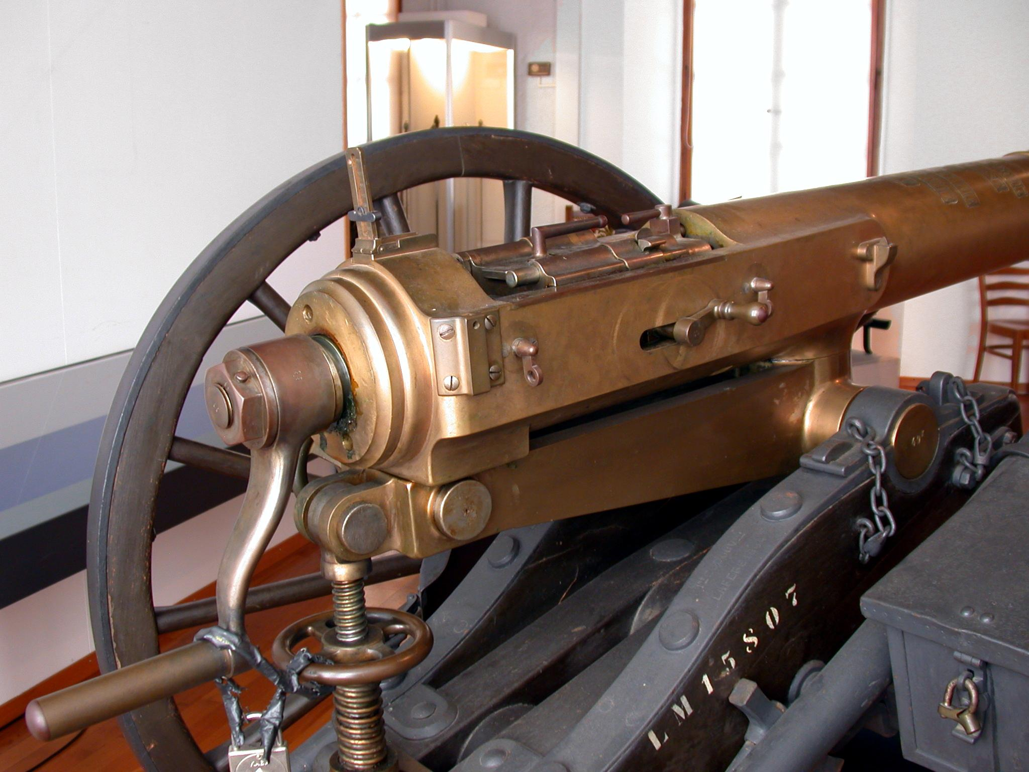 French Mitrailleuse De Reffye, Breech Musée Militaire Vaudois, 1110 Morges Switzerland